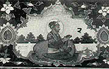 Guru Angad Dev Ji (31 March 1504 – 28 March 1552) from a painting at Baoli Sahib-Goindwal